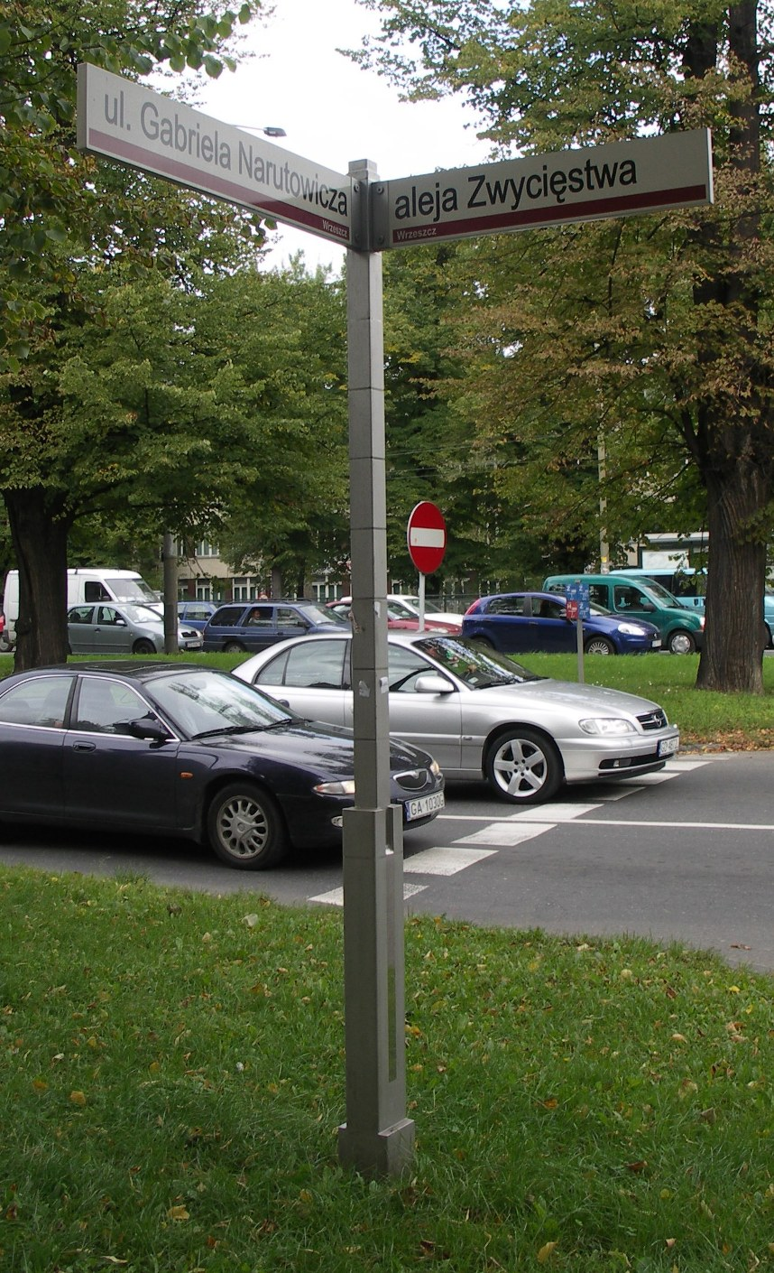 An element of the City Information System in Gdańsk (district Wrzeszcz)